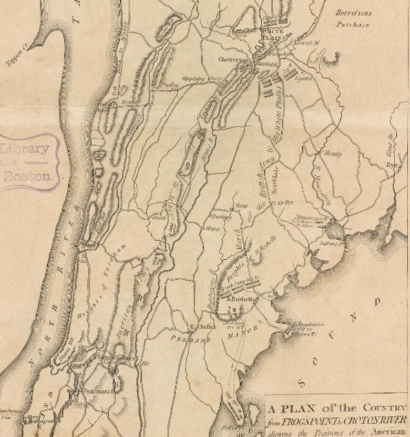 Map of New York City and Westchester County, New York, showing movements of the British Army from Pell's Point to White Plains.